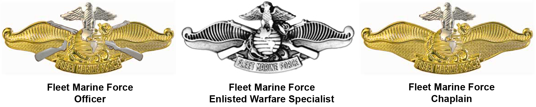 Image of Fleet Marine Force insignia used in the US Navy. For use in USN articles concerning awards.